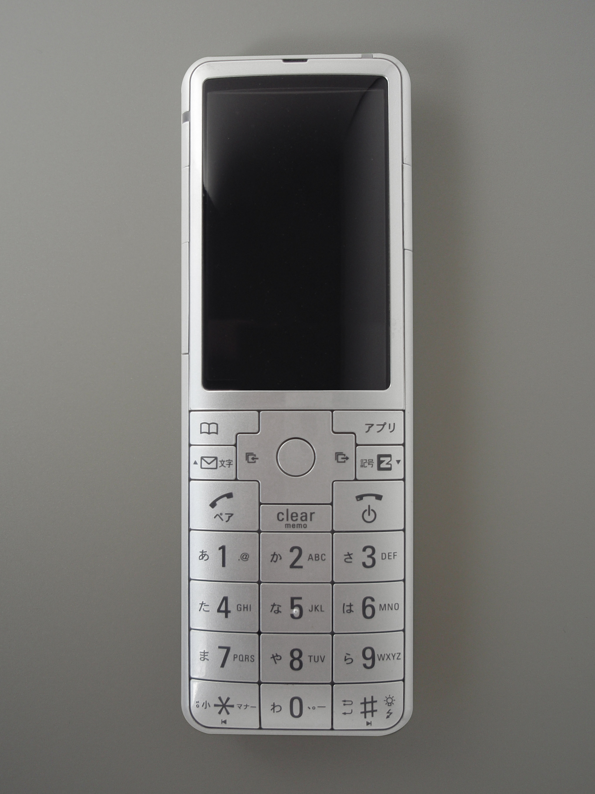 INFOBAR2 is Japanese mobile phone. Designed by Naoto Fukasawa.